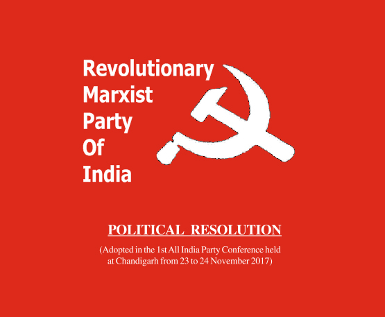 Revolutionary Marxist Party of India Political Resolution 2017